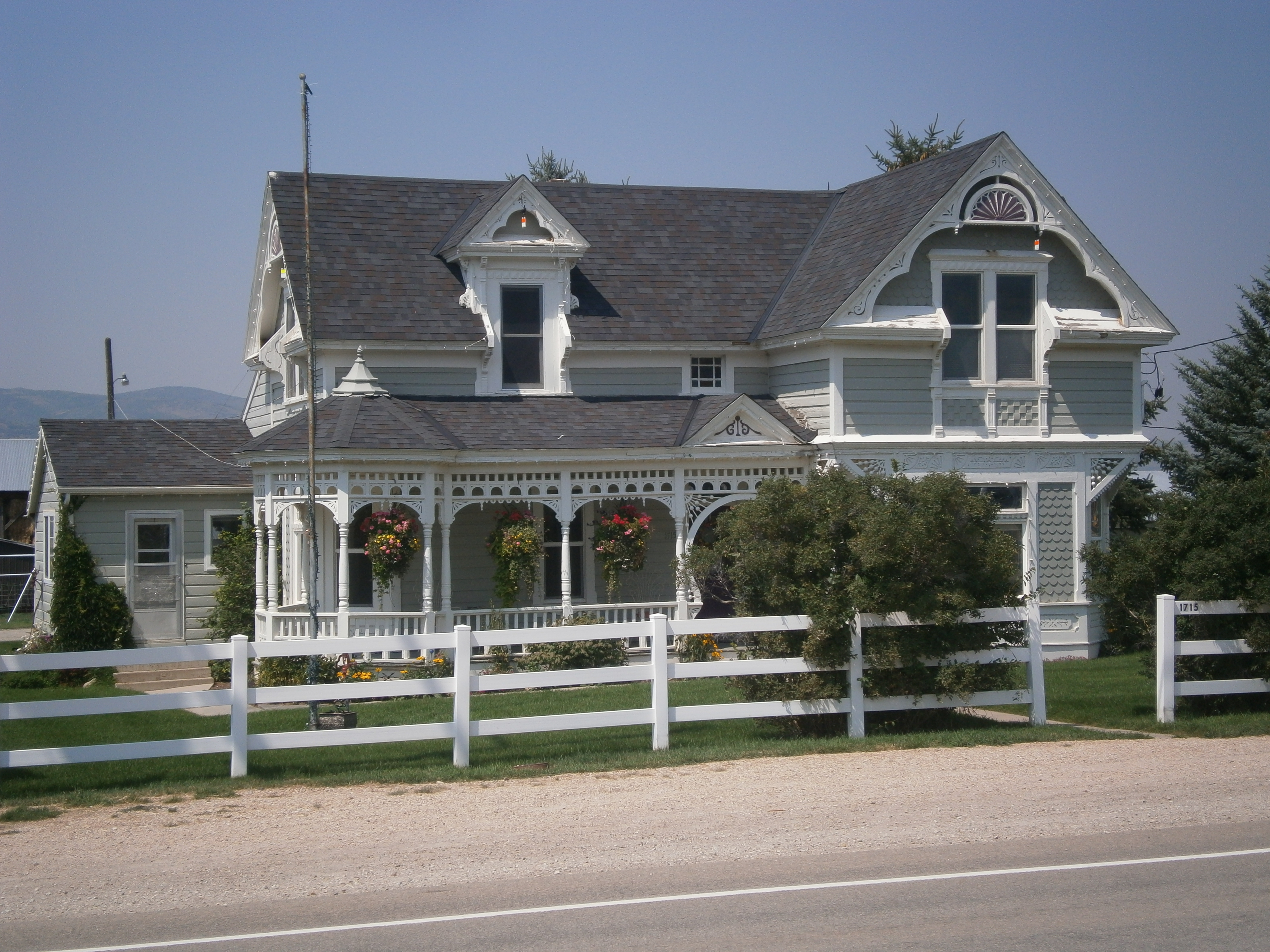 The William and Martha Myrick House, a historic home in Marion, Utah, United States.